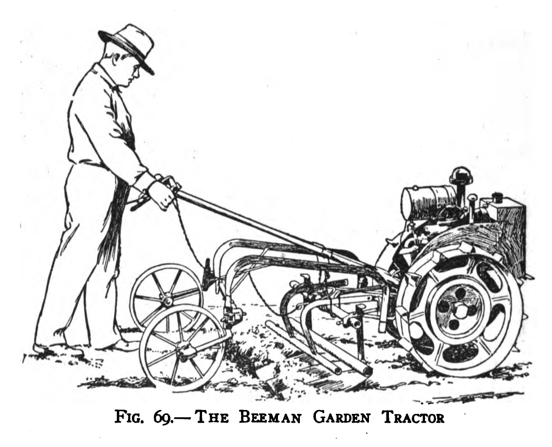 An example of a walk-behind two-wheel tractor of 1920 vintage, the Beeman tractor, as described in a book on tractors by Archie Frederick Collins.